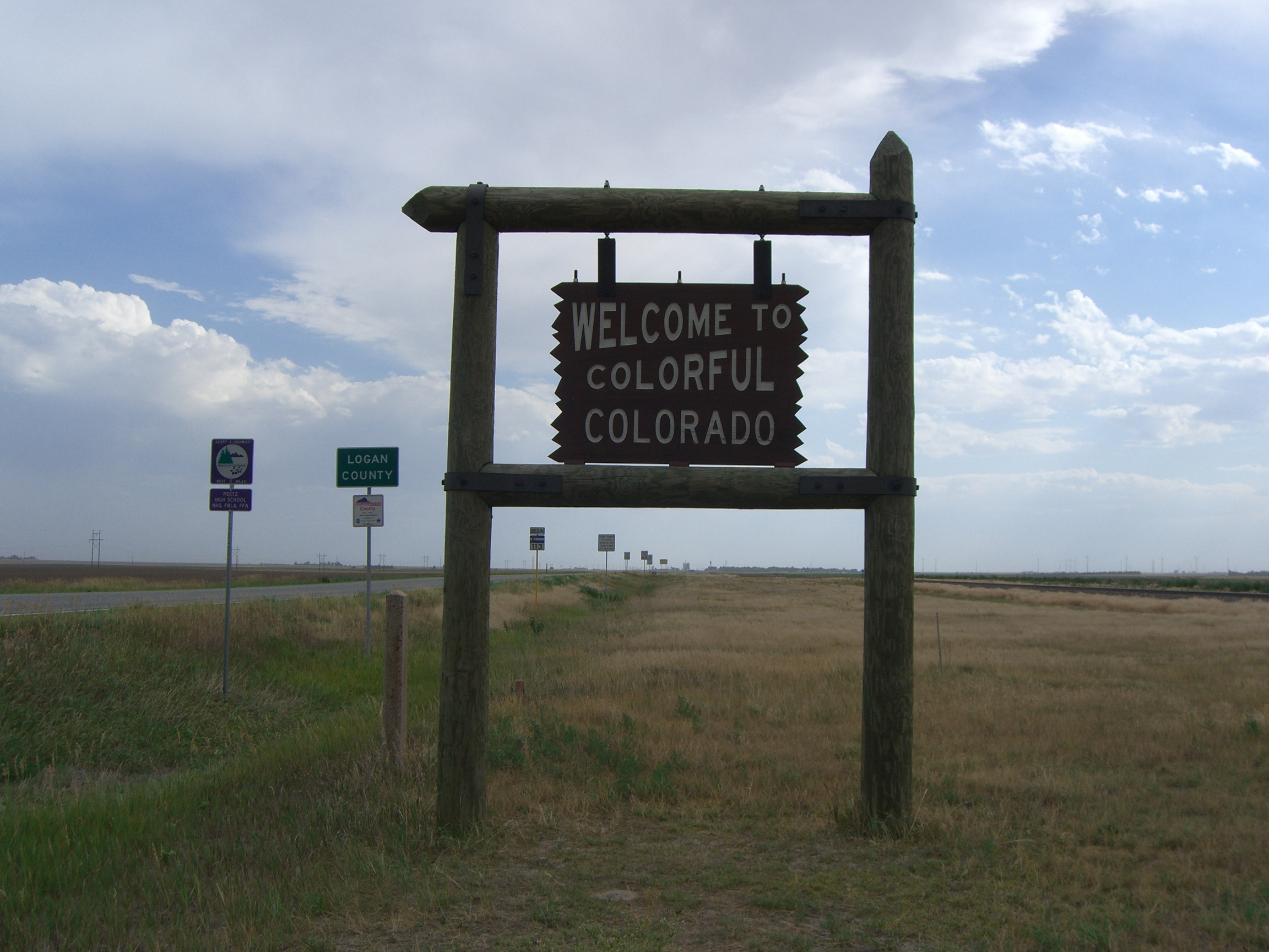 Welcome-to-Colorado-sign as seen from Nebraska